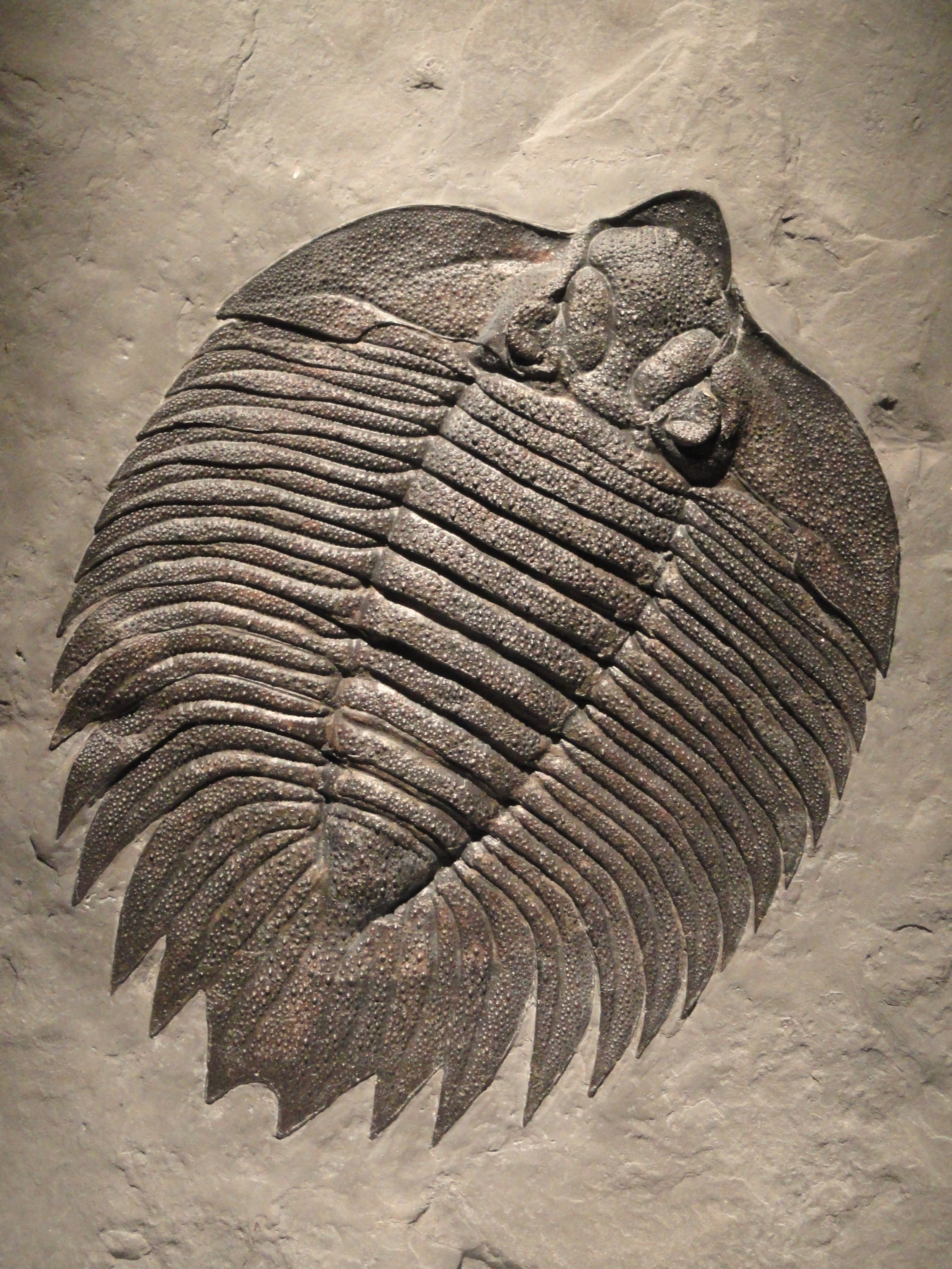 Exhibit in the Houston Museum of Natural Science, Houston, Texas, USA.